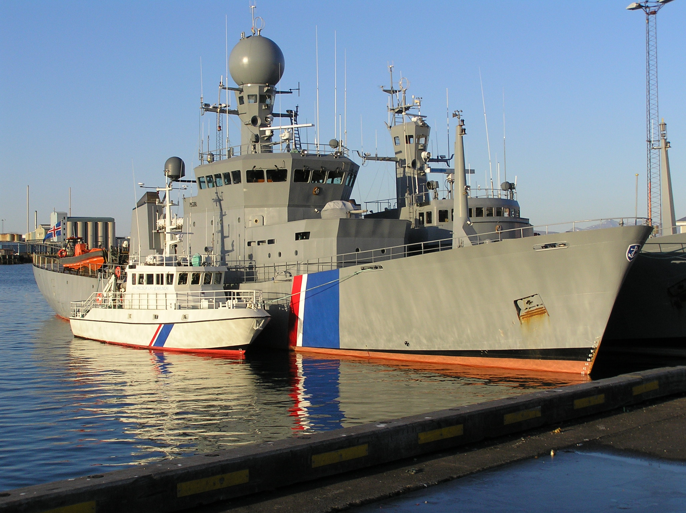 Ships of the Icelandic Coast Guard in port. From the left, M/s Baldur, V/s Ægir, V/s Óðinn.